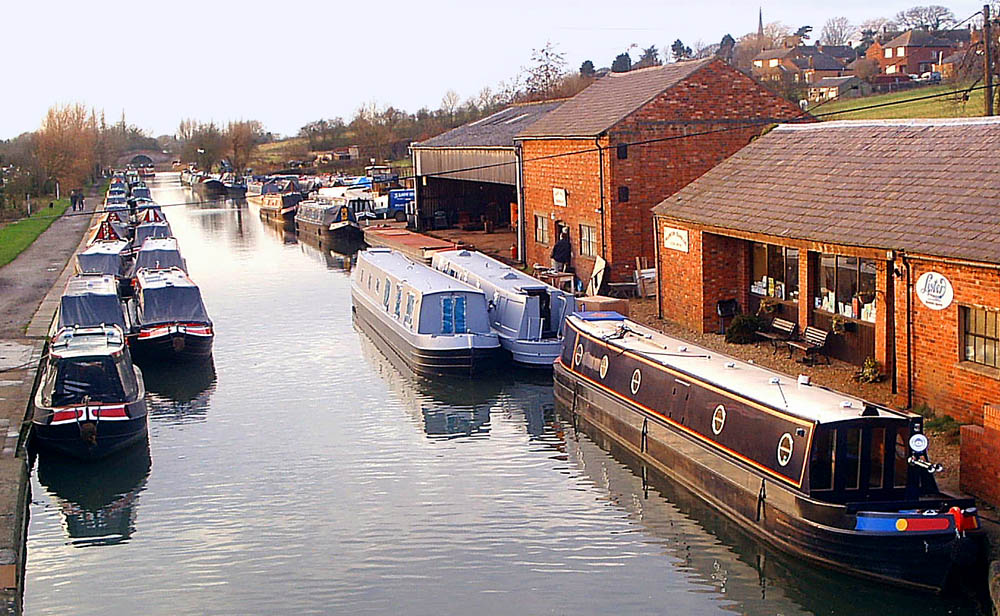 The Grand Union Canal seen here at Braunston in Northamptonshire, at the top right of the picture can be seen the spire of Braunston village church. Photo by G-Man Jan 2005. See also Braunston Marina